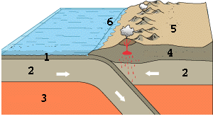 Oceanic-continente plate convergence internationalization. 1-Oceanic crust; 2-Lithosphere; 3-Astenosphere; 4-Continental crust; 5-Volcanic arc; 6-Trench